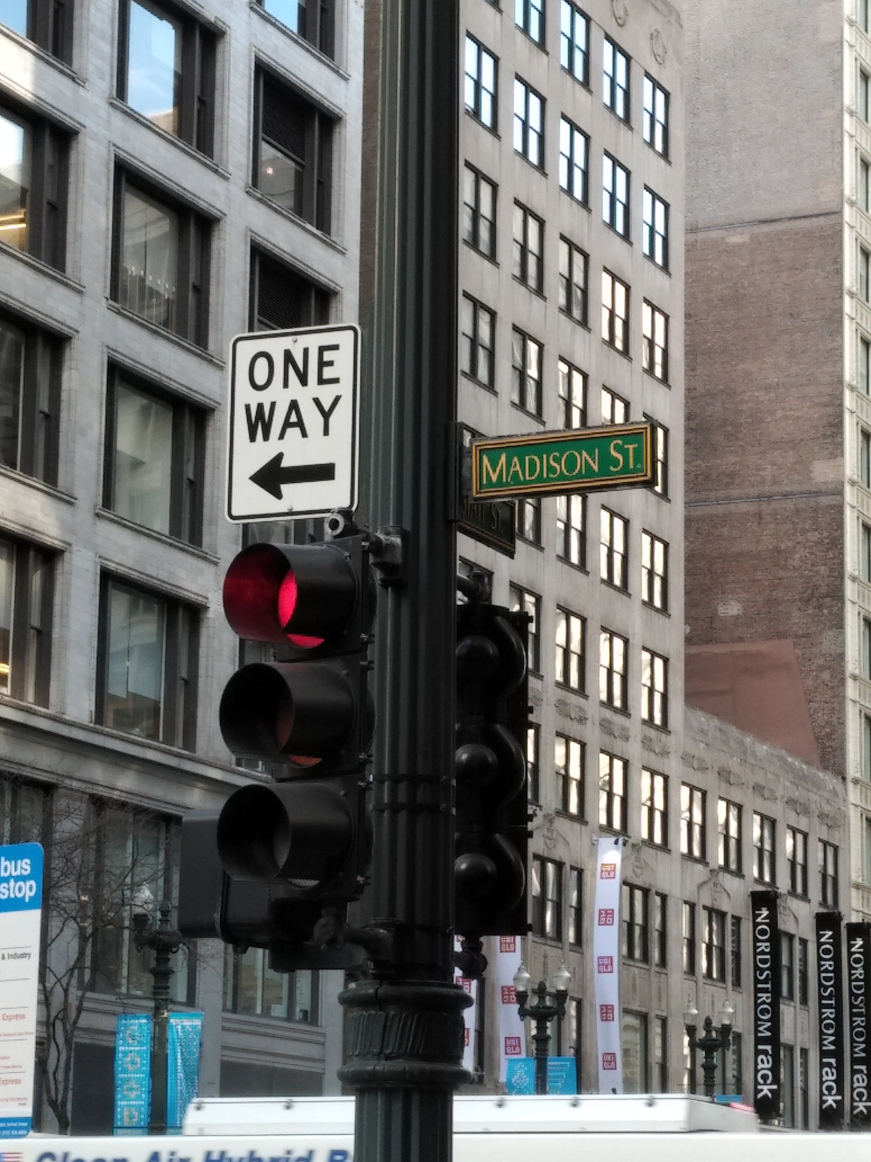 A one way sign on Chicago's Madison Street.